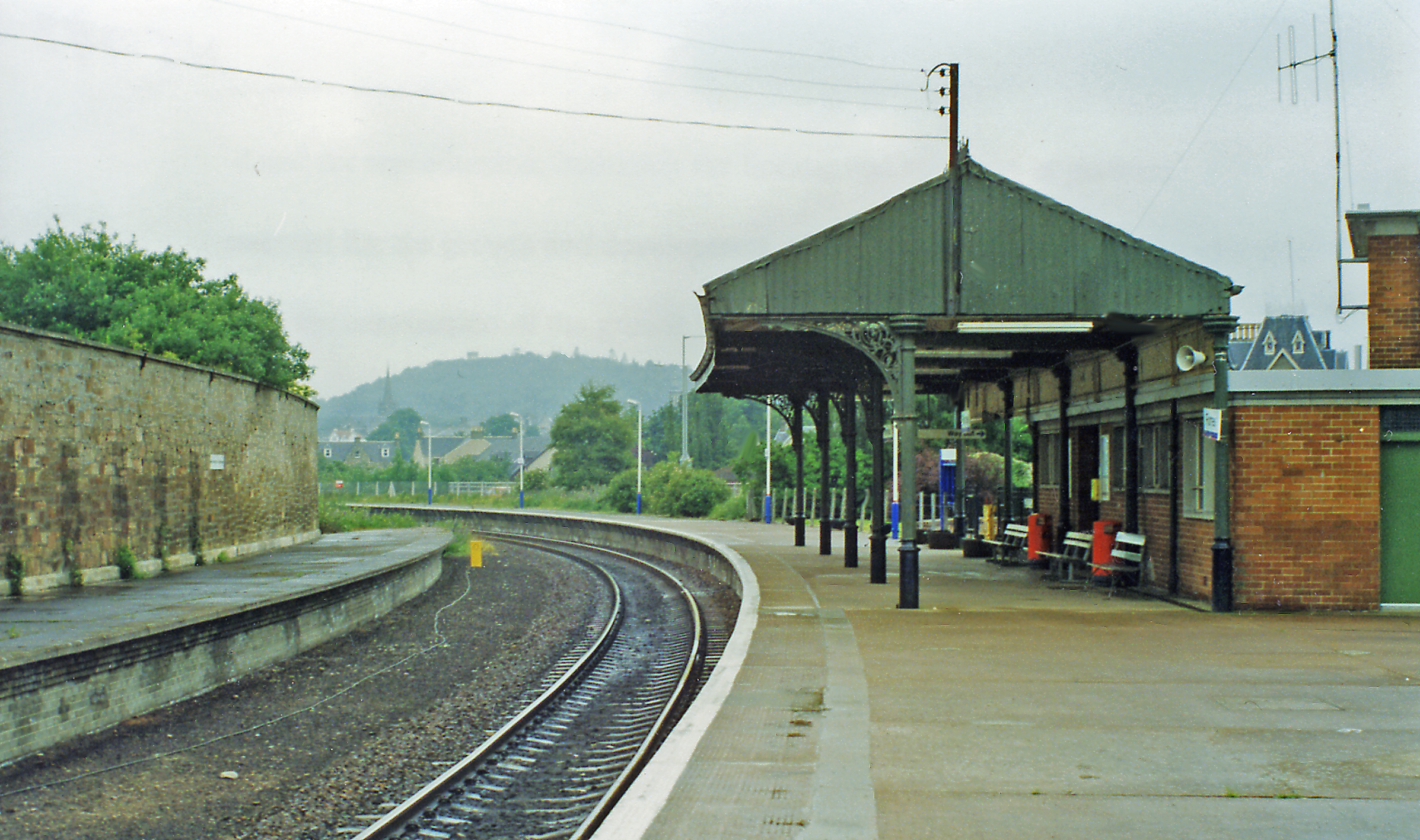 Forres station (Inverness platform), 1997. View westward, towards Nairn and Inverness: ex-Highland Railway (Aberdeen) - Keith - Elgin - Forres - Nairn - Inverness main line. Until 18/10/65 (passengers, goods 1/4/68), when the main line from Aviemore via Dava was functioning, the lines at Forres formed a triangle with its platforms in a V-shape in the rebuilt station, with also through tracks (Inverness - Keith) on the third side. {I am not sure why there is no track at the platform on the left here, as there is one in my view